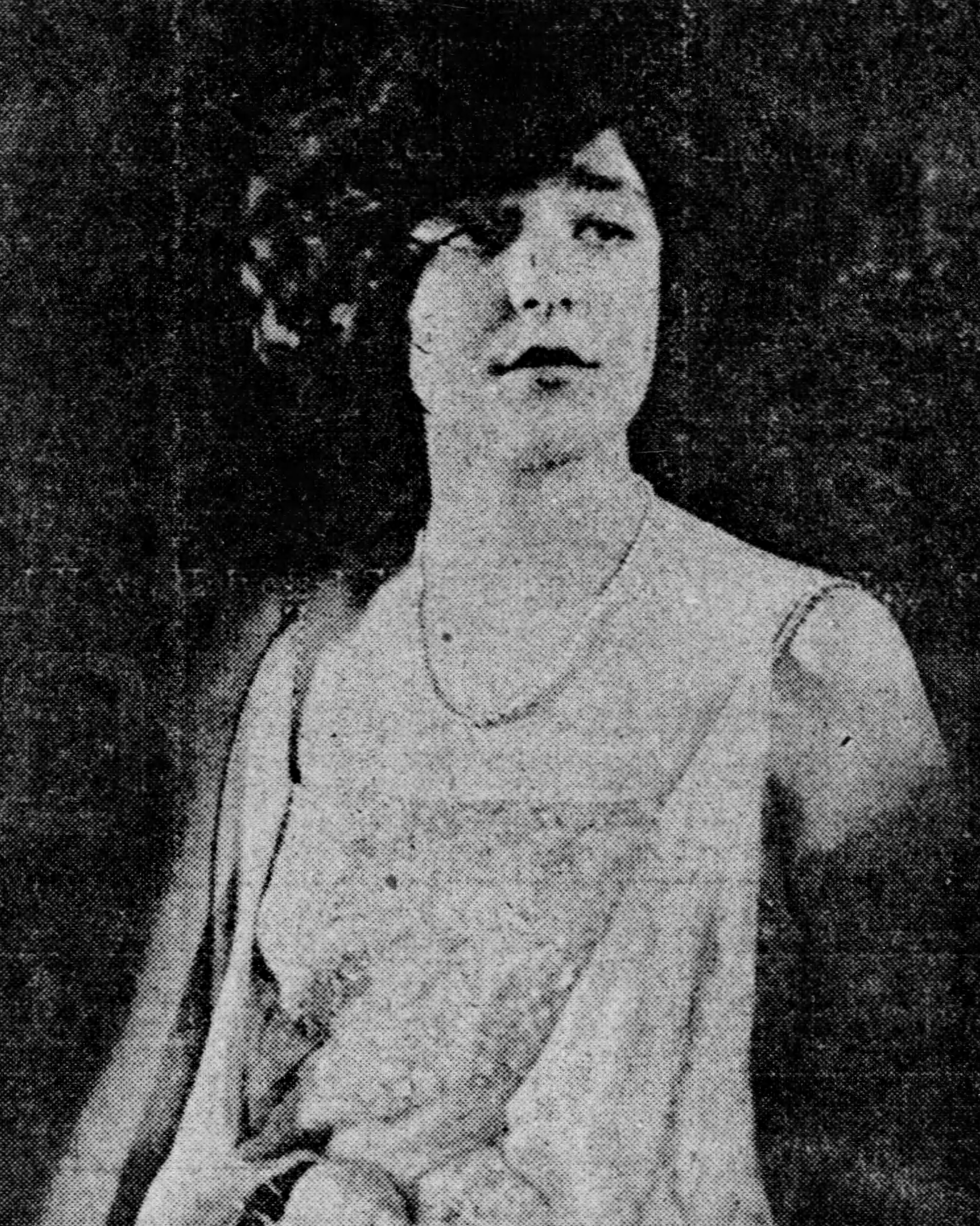 Alice Busch, Veiled Prophet Queen, St. Louis, Missouri, 1922